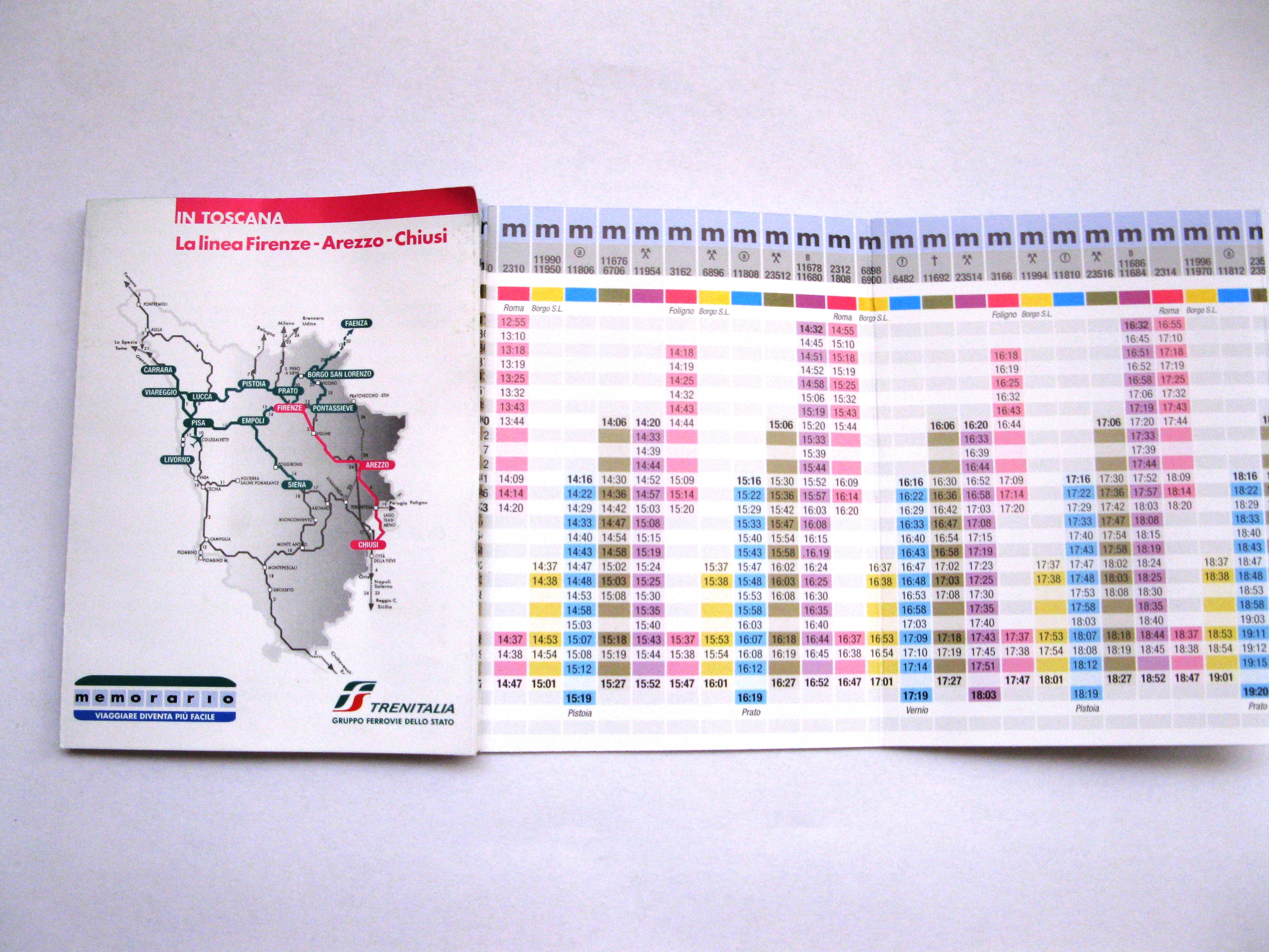 Memorario timetable (Florence-Chiusi railway line)